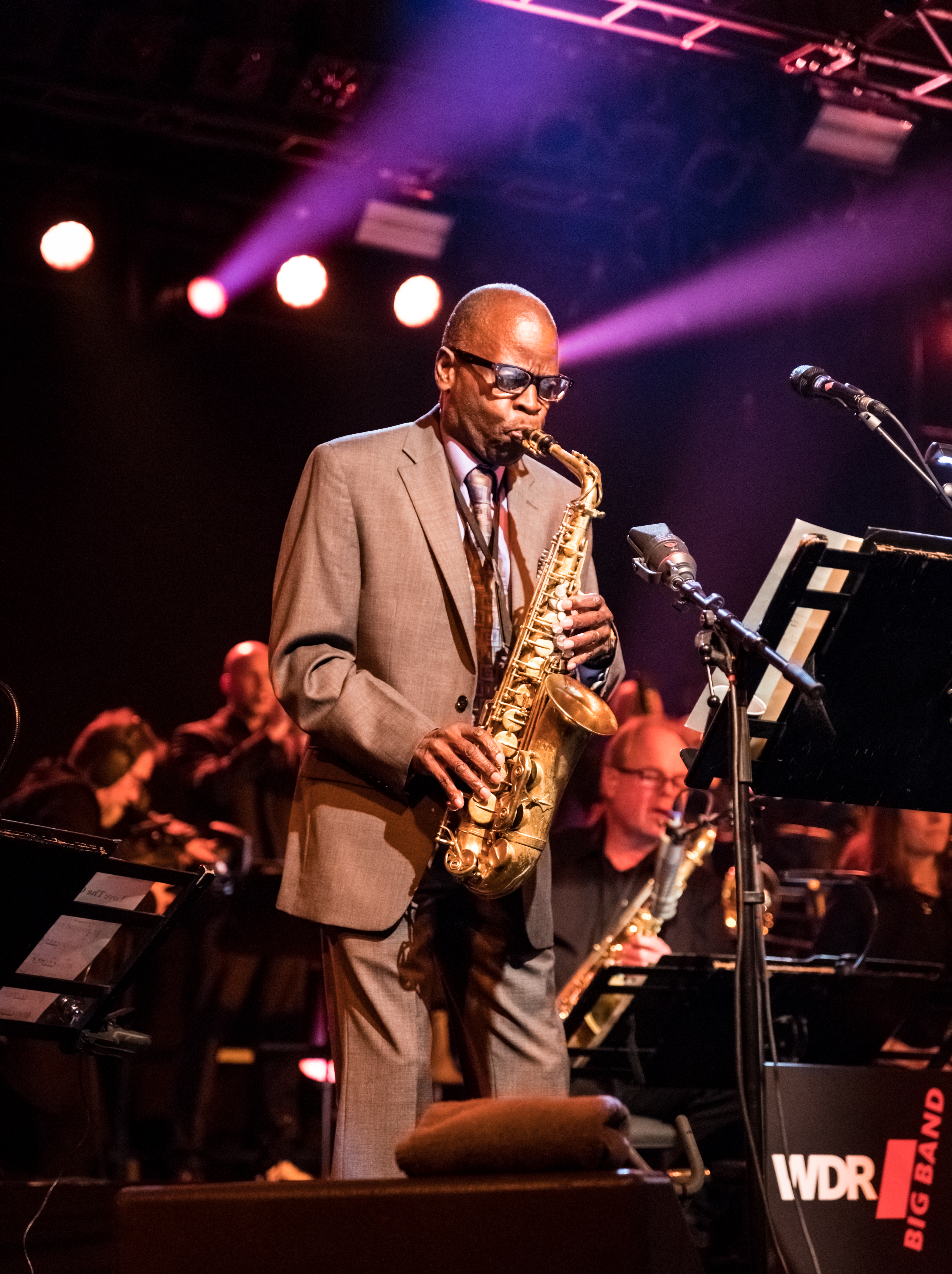 WDR Big Band feat Maceo Parker - Leverkusener Jazztage 2017